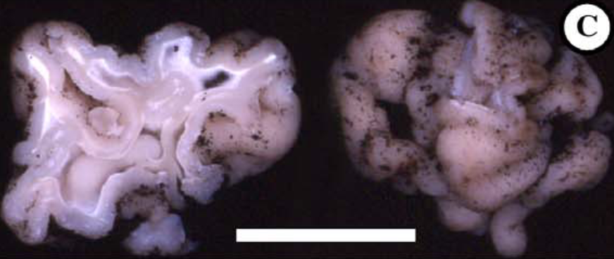 Gymnohydnotrya sp. collected under Nothofagus pumilio (Poepp & Endl.) Krasser in Argentina and similar to sequences from Nothofagus mycorrhizas. scale bar: 1cm